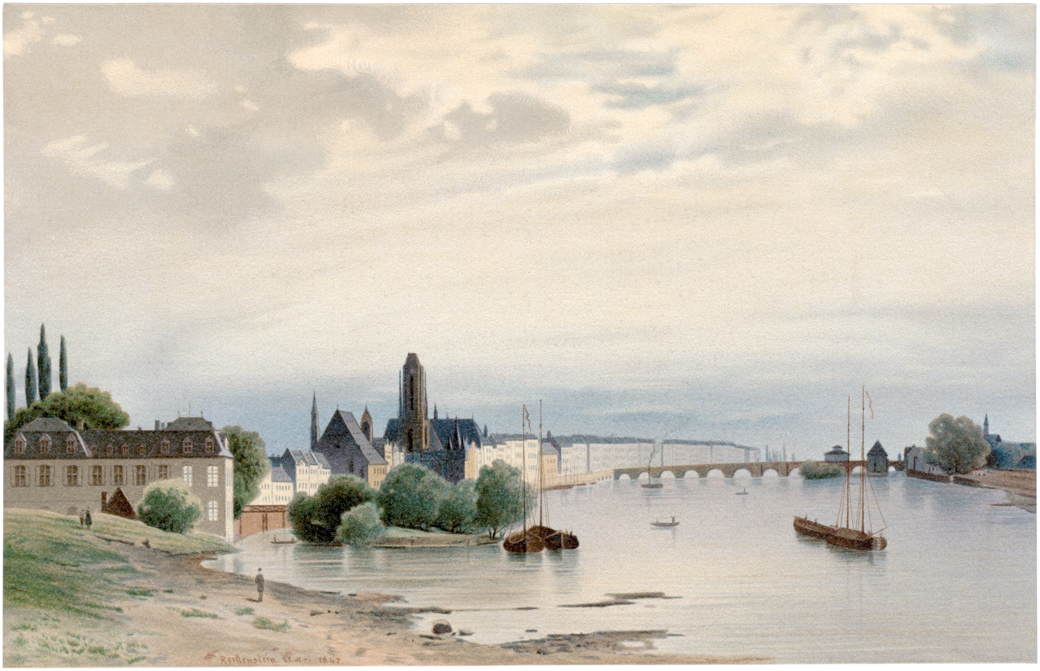 1. View of the City as seen from the Lower Main with the Main Island and, to the left in the foreground, the building of the Main Lust, earlier Garden of Guaita, from 1832 to 1859 a popular amusement place, torn down 1873 with the construction of the waterside buildings. (Property of Theodor Voigt.)